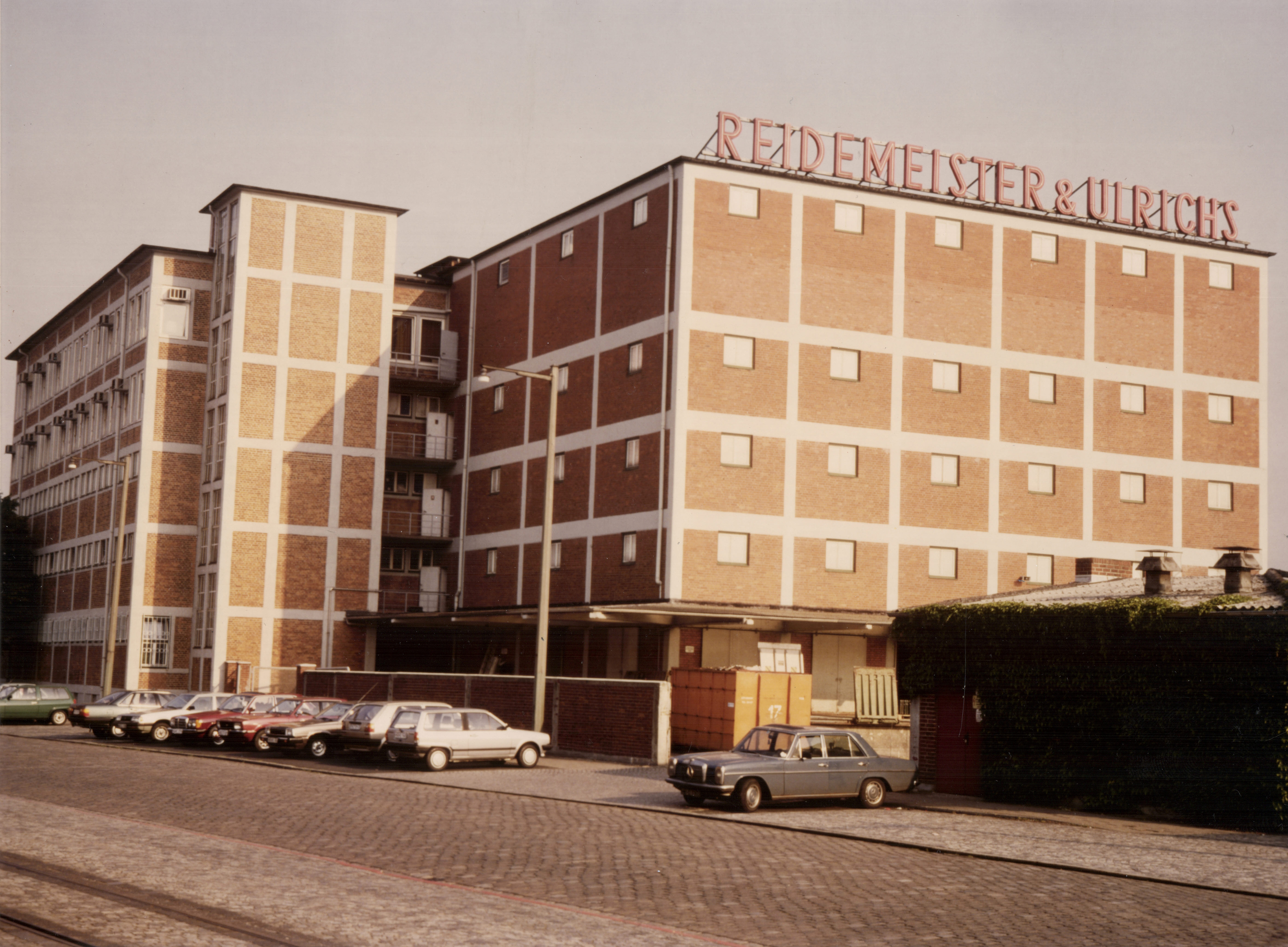 Reidemeister & Ulrichs Wine Merchants Warehouse, Auf der Muggenburg